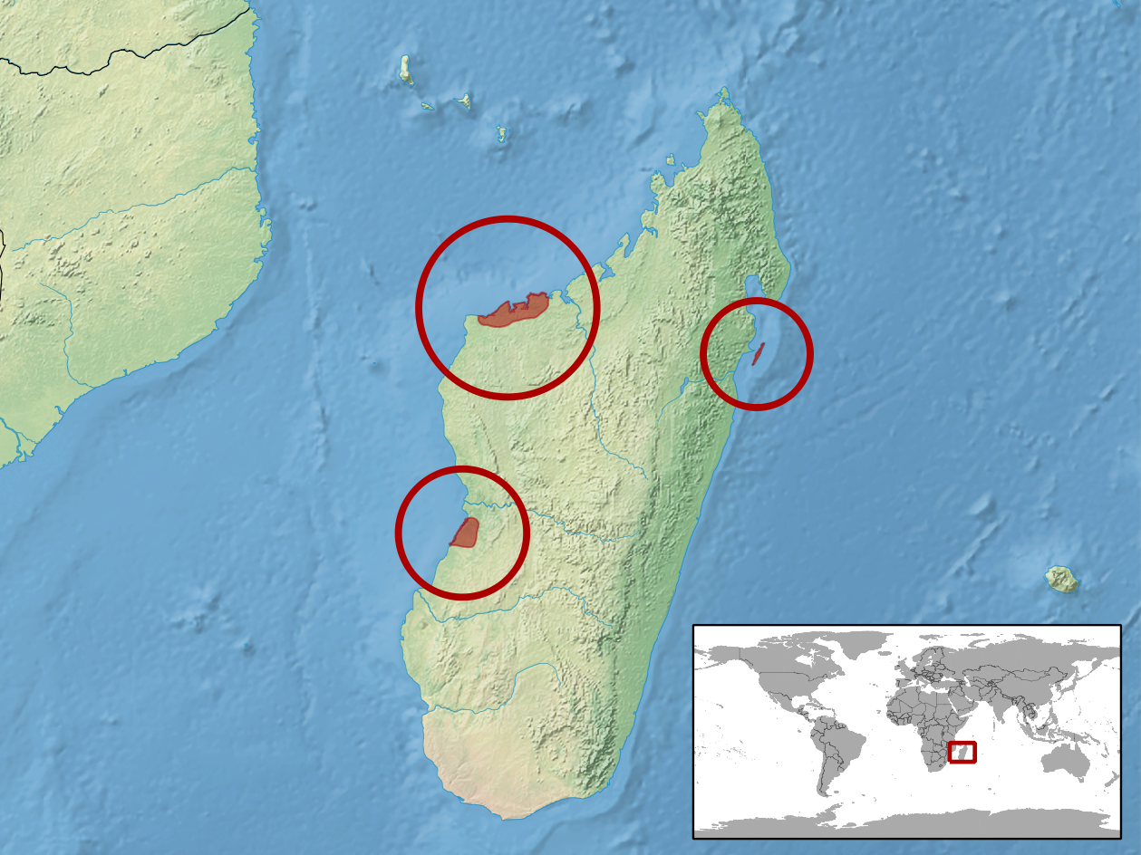 geographic distribution of Geckolepis polylepis (Native: Madagascar)